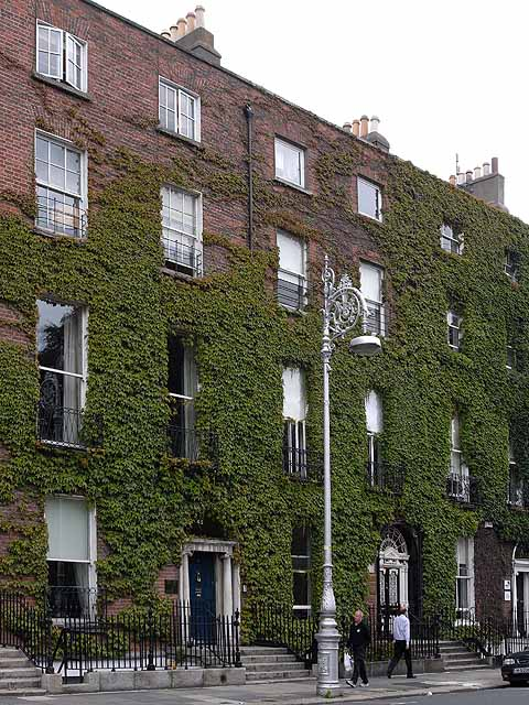 Fitzwilliam Square West. Splendid Georgian architecture, featuring some of the famous "doors of Dublin" (see 228788) and a very fine lamp post.